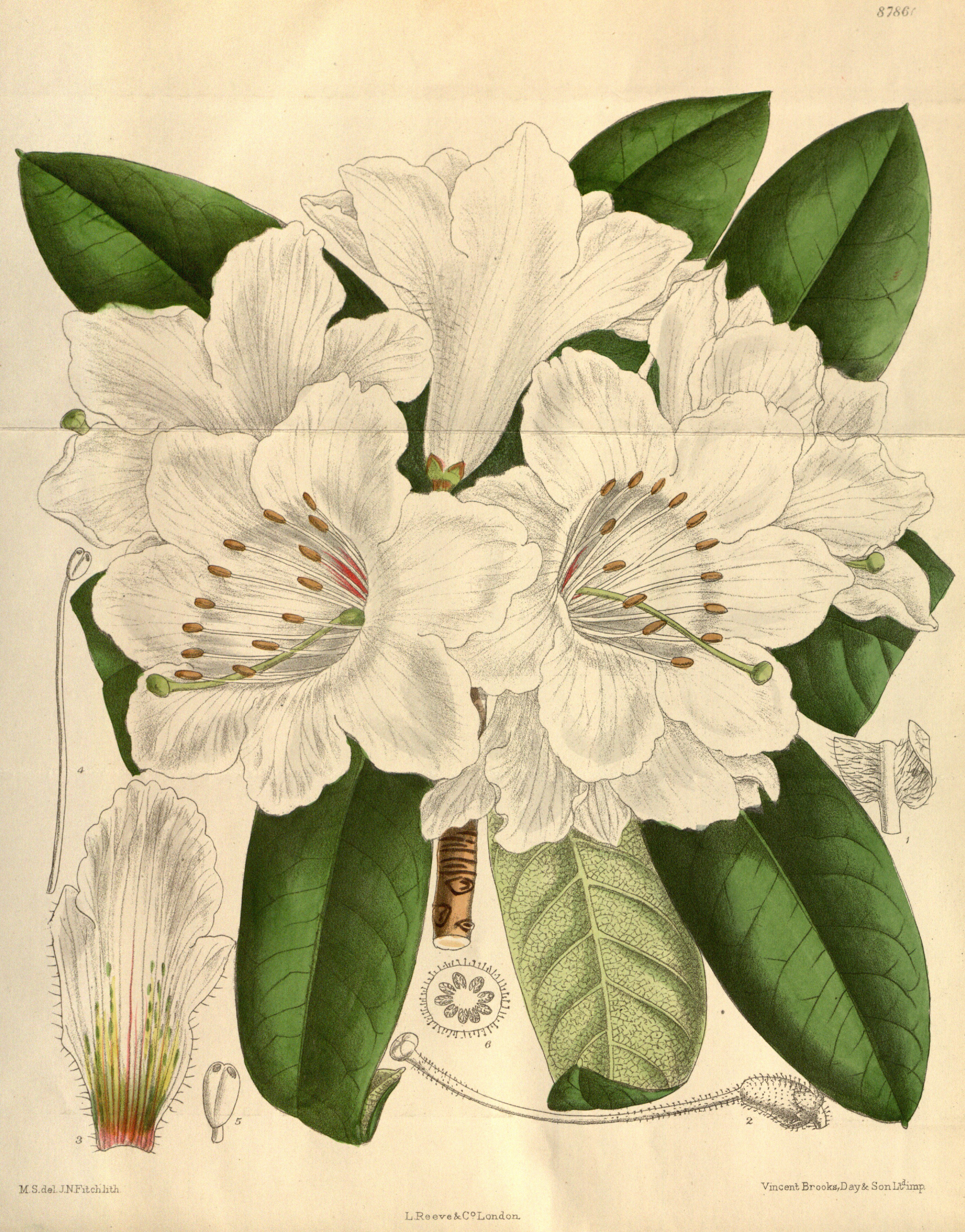 Rhododendron auriculatum, Ericaceae